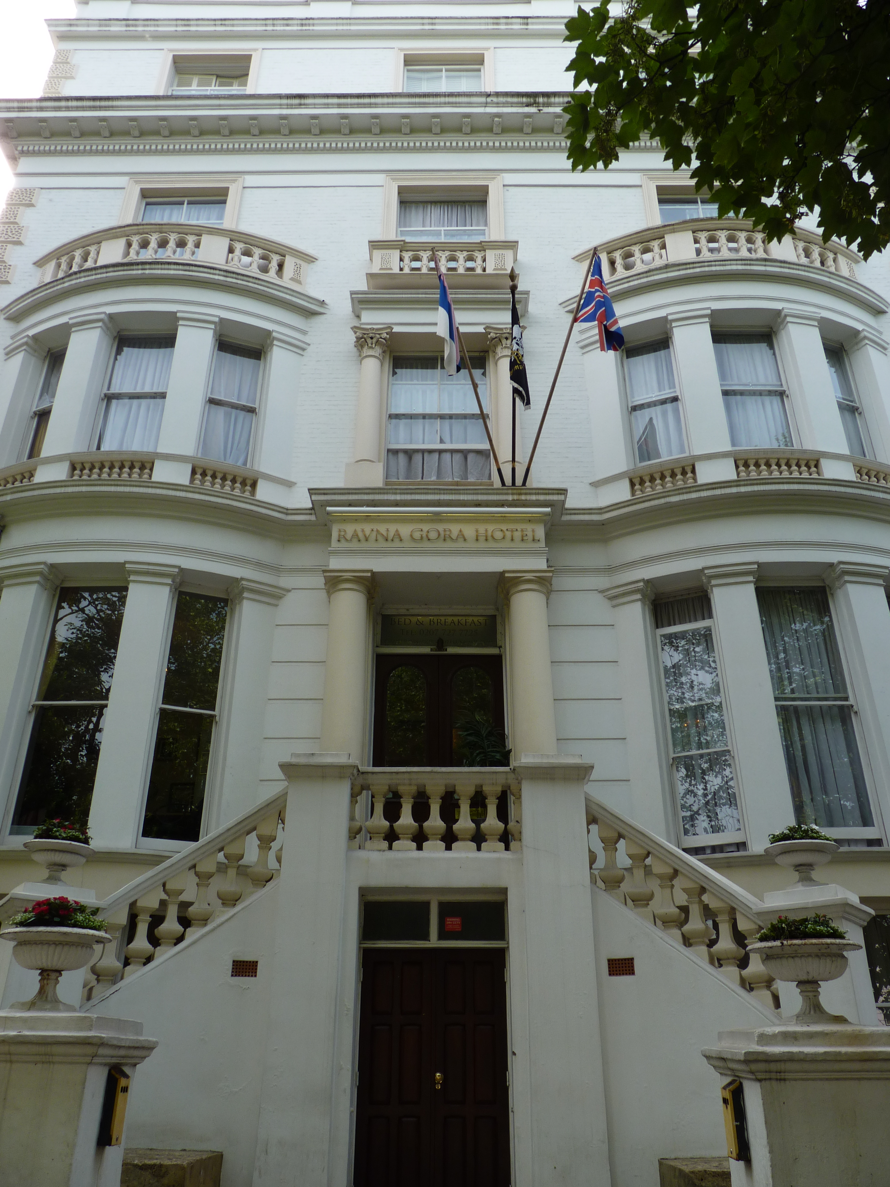 Hotel Ravna Gora, 29 Holland Park Avenue, West Holland Park, London W11 3RW